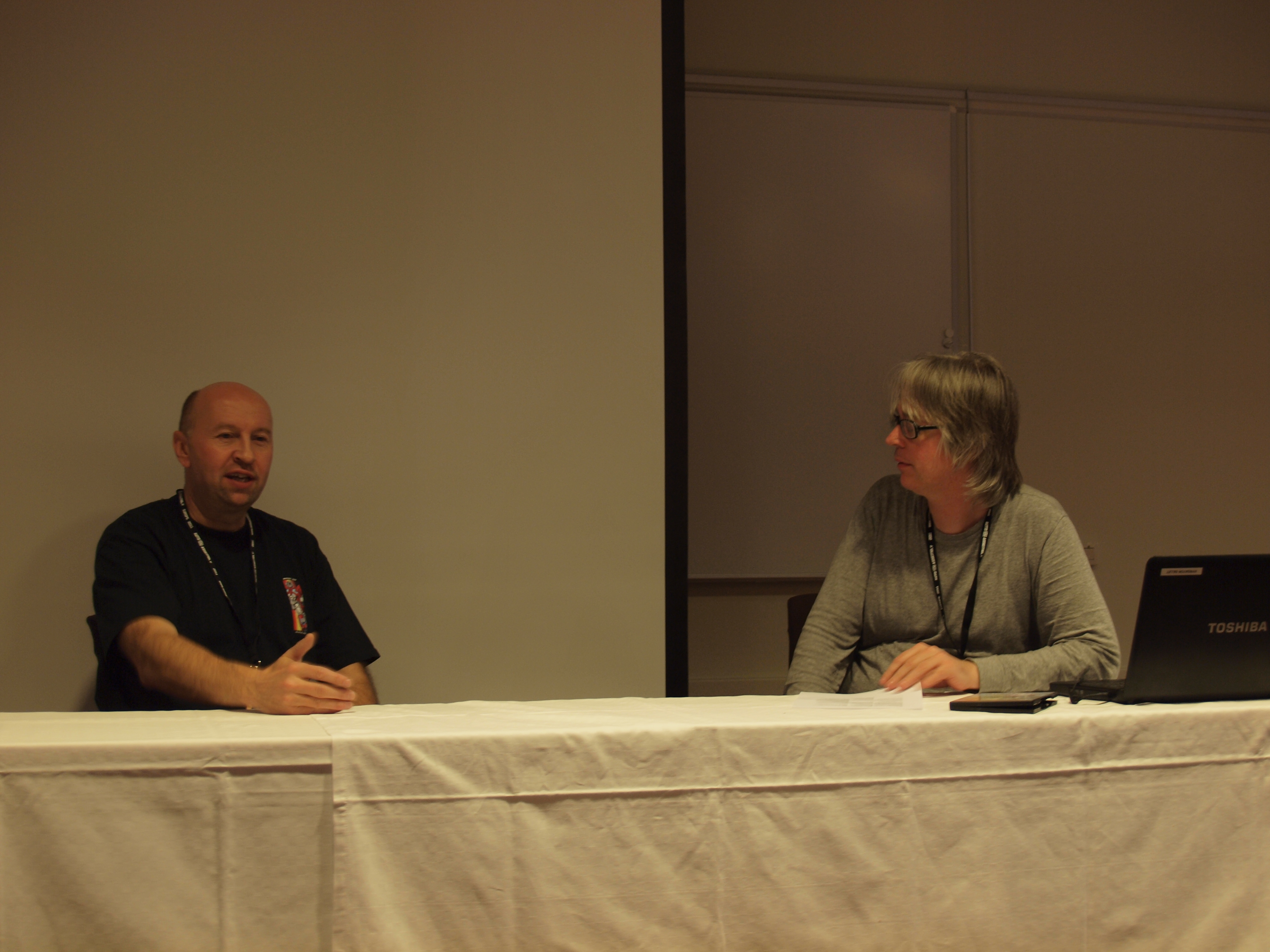 Simon Furman and Lars Eriksson from NTFA, one of the organisers, at Auto Assembly Europe 2011 in Uppsala, Sweden. Uploaded with permission from the organisers.